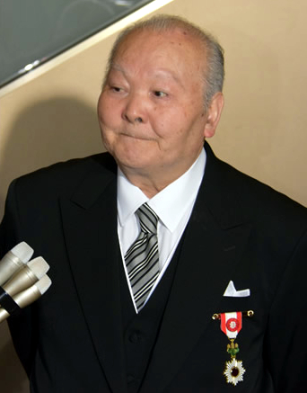 Hifumi Katō, Visiting Professor of Sendai Shirayuri Women's College, attended a presentation ceremony of the Order of the Rising Sun, Gold Rays with Rosette at the National Theatre of Japan in Chiyoda Ward, Tōkyō Metropolis on May 11, 2018.